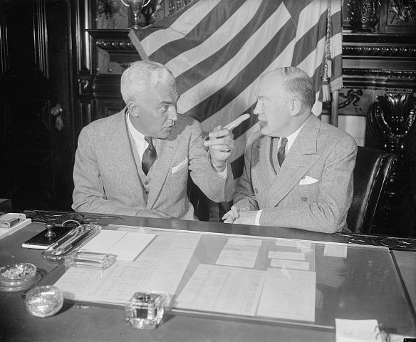 U.S. High Commissioner to the Philippines Paul V. McNutt (left) meets with U.S. Secretary of War Harry H. Woodring (right)in Washington, D.C.